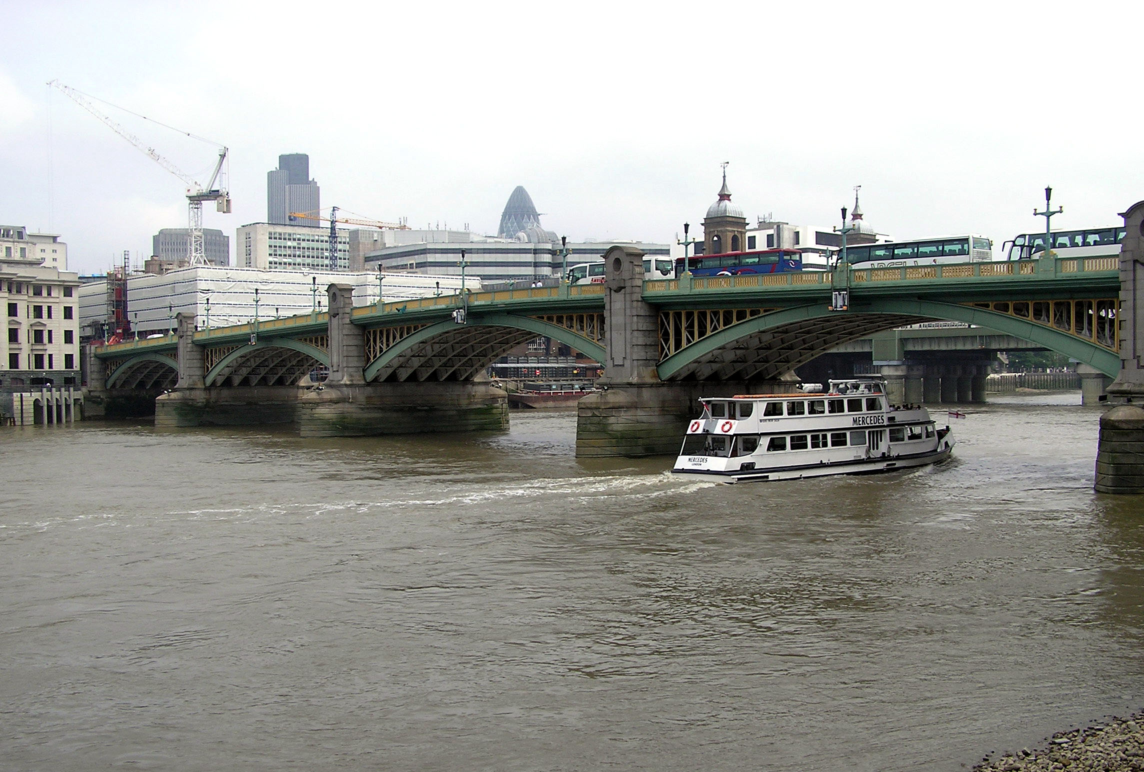 Southwark Bridge seen from the south bank of the Thames. Tower 42 and the Swiss Re Tower peep over the top. Under the bridge is the Mercedes, a passenger ship Photographed by Adrian Pingstone in June 2005 and released to the public domain.